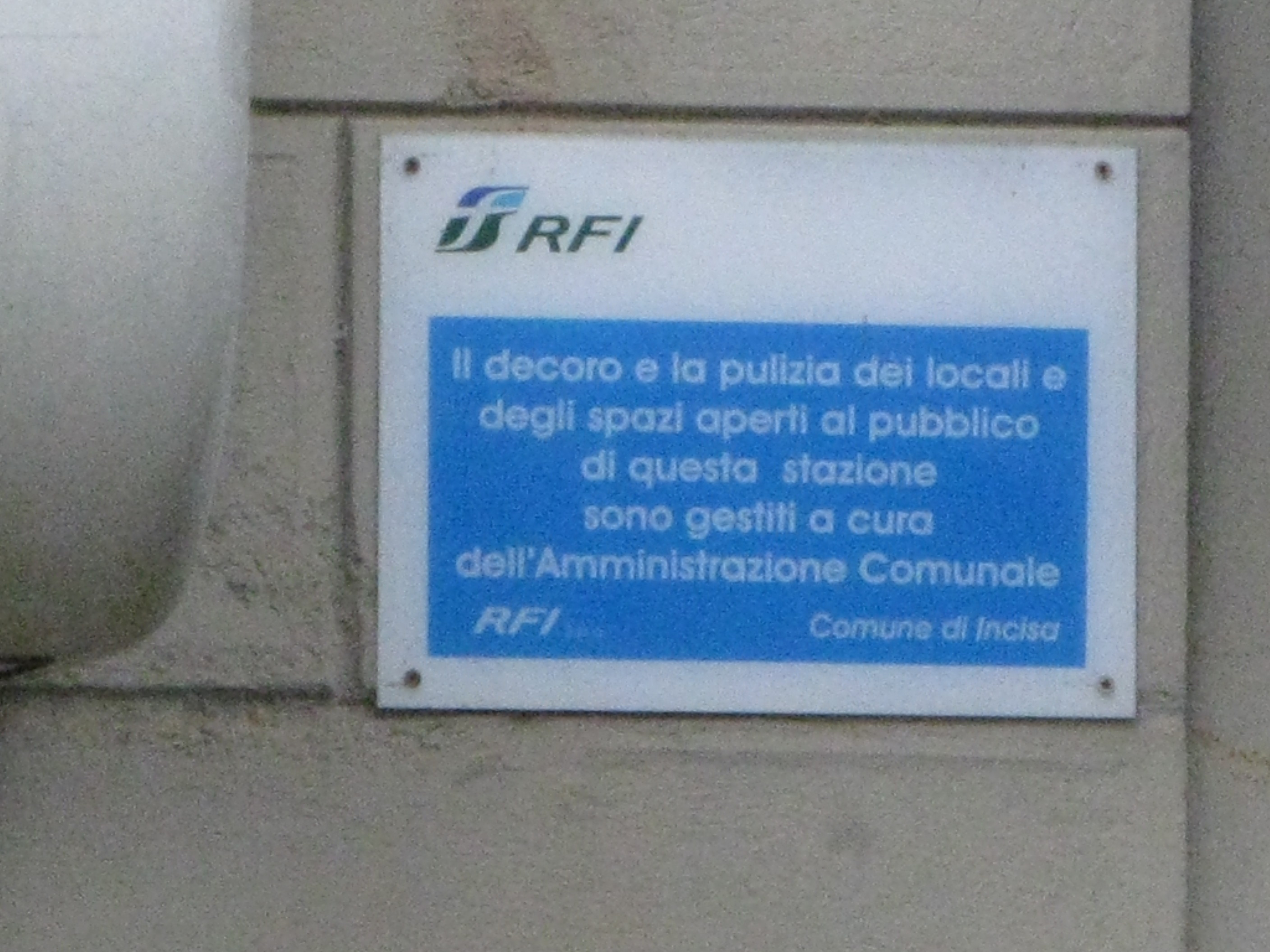 Agreement between Coumune of Incisa and RFI on the cleaning of the station